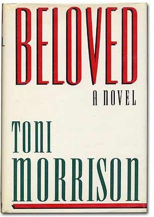 1st edition cover